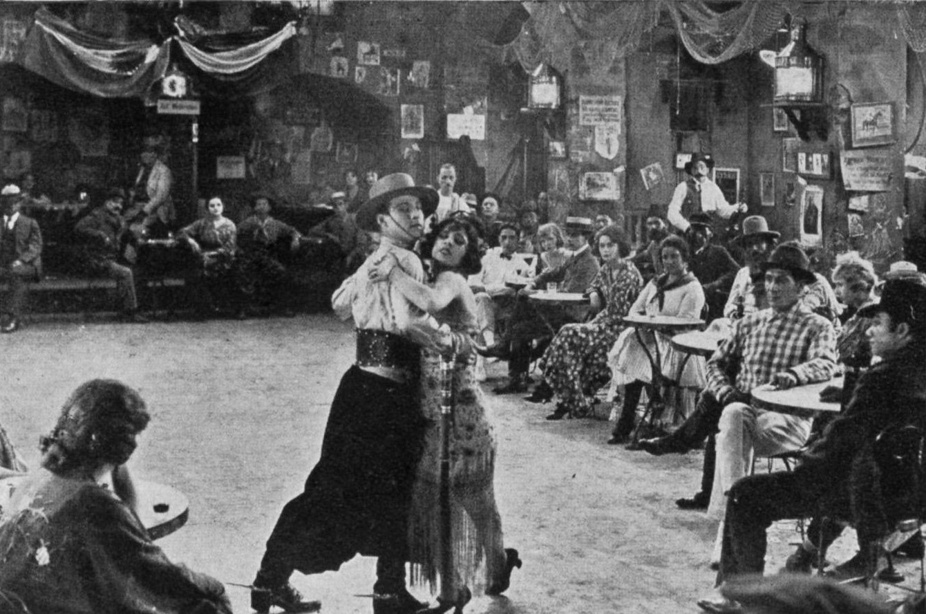 Tango scene from the American film The Four Horsemen of the Apocalypse (1921), extracted from a sheet music cover.